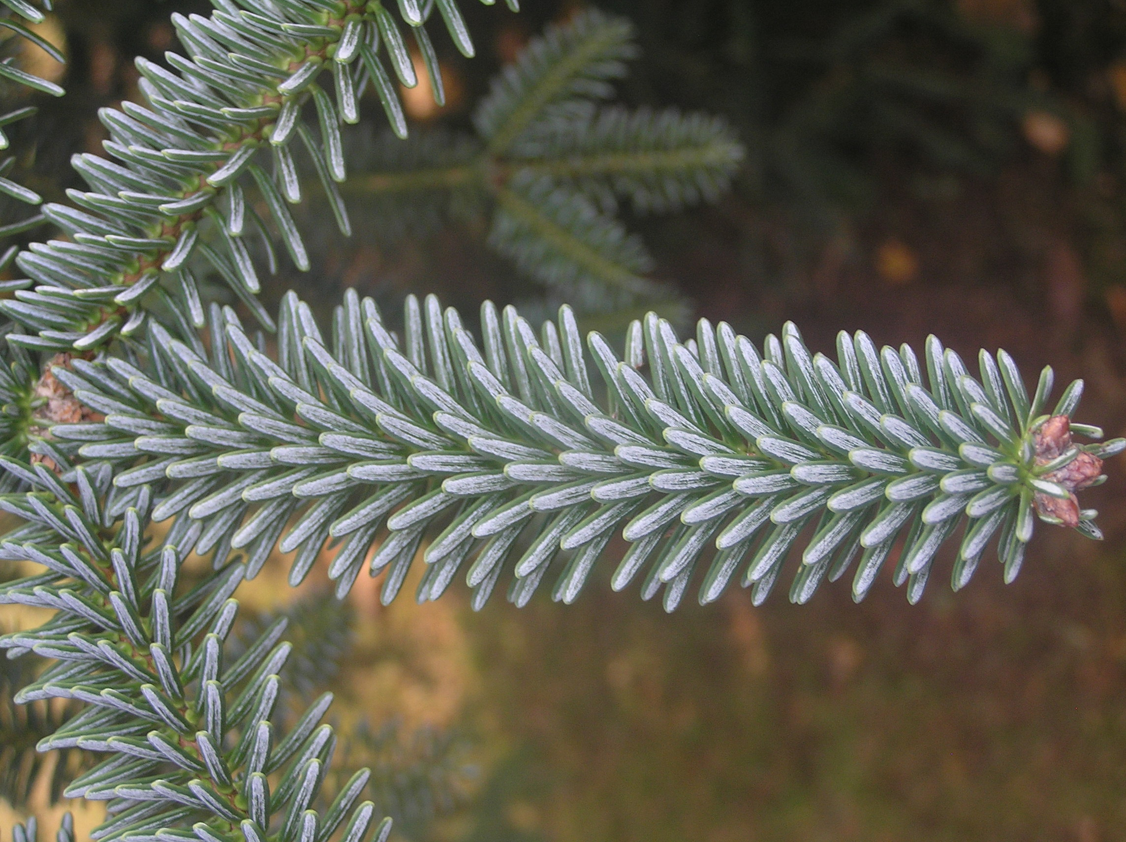 Abies pinsapo 'Argentea', cultivated in the Czech Republic, arboretum Žampach